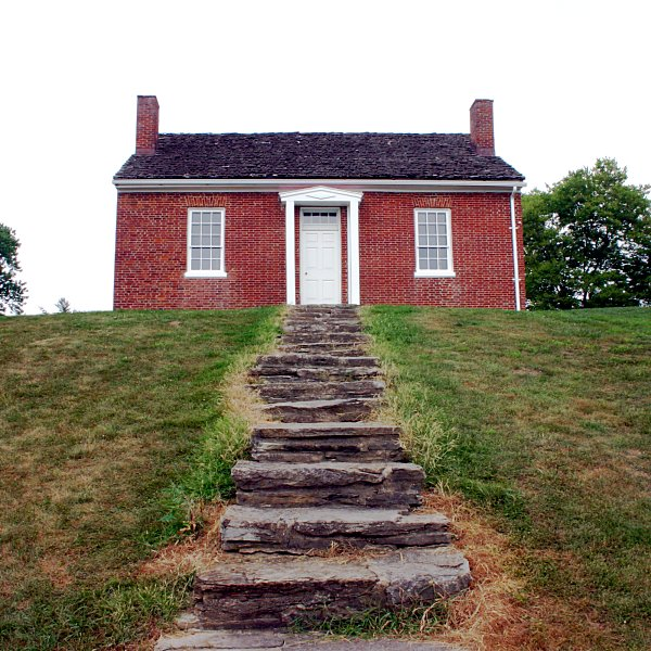 The Rankin House on Liberty Hill in Ripley, home of Abolitionist John Rankin, 2005, by Rick Dikeman "There in Ripley was a man named Mr. Rankins; I think the rest of his name was John. He had a regular station there on his place for escaping slaves....He had a big lighthouse in his yard, about thirty feet high and he kept it burnin' all night. It alway meant freedom for a slave if he could get to this light." "Sometimes Mr. Rankins would have twenty or thirty slaves that had run away on his place at the time. It must have cost him a whole lots to keep them and feed 'em, but I think some of his friends helped him." -- Arnold Gragston, former slave [1]